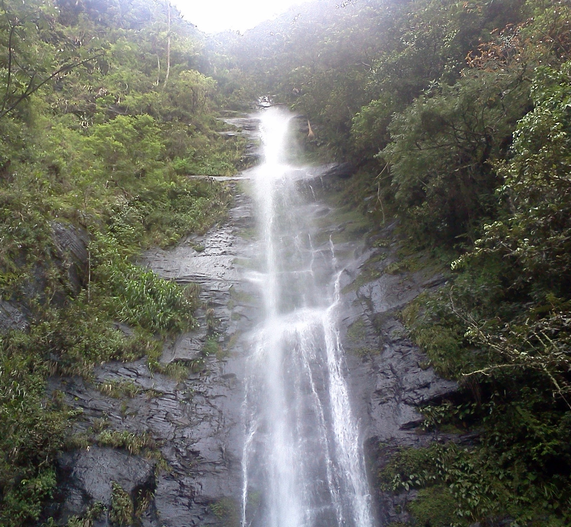 Third Cascade "La Jalancha" falling from Uchumachi mountain near Coroico town, La Paz - Bolivia.